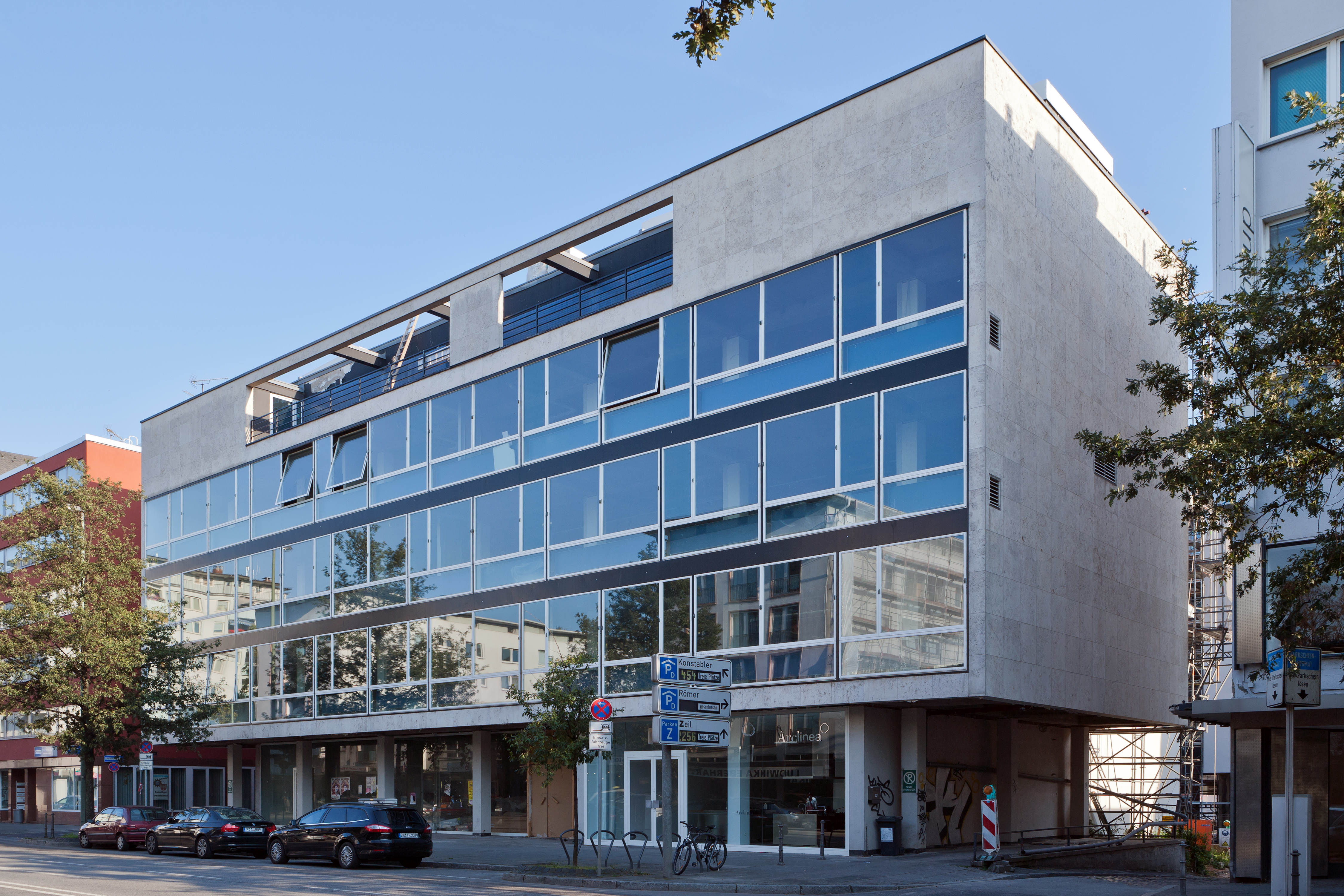 Frankfurt on the Main: Berliner Straße (Berlin Street) 27 as seen from the northwest